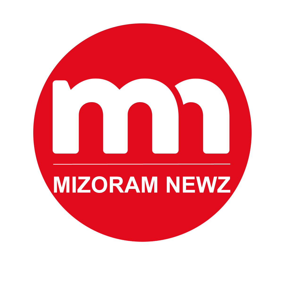 Mizoram Newz Official Logo